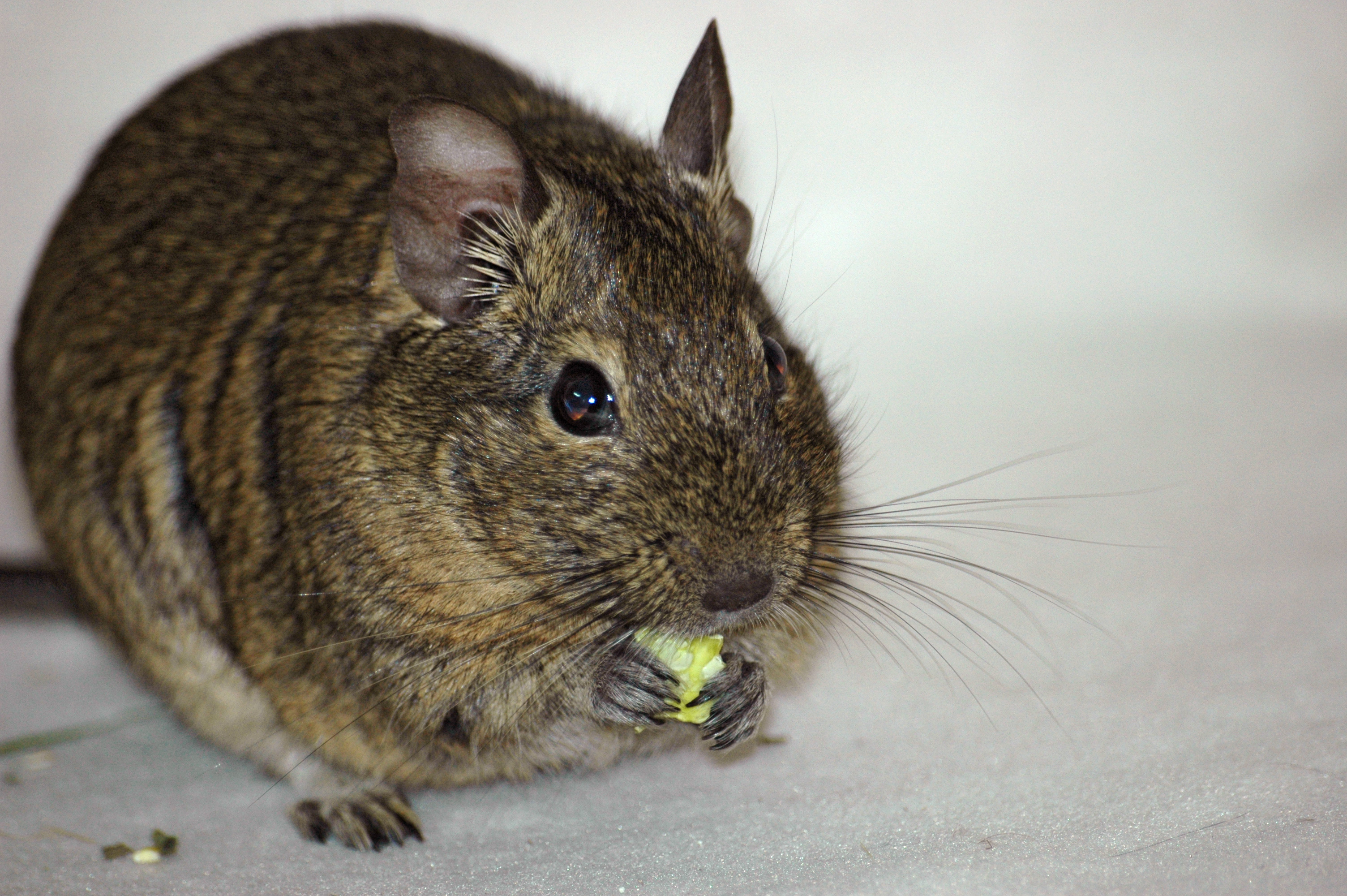 Degu (Octodon degus), 55294 Bodenheim, Germany